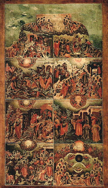 Russian icon of Lord's Prayer ("Отче Наш")